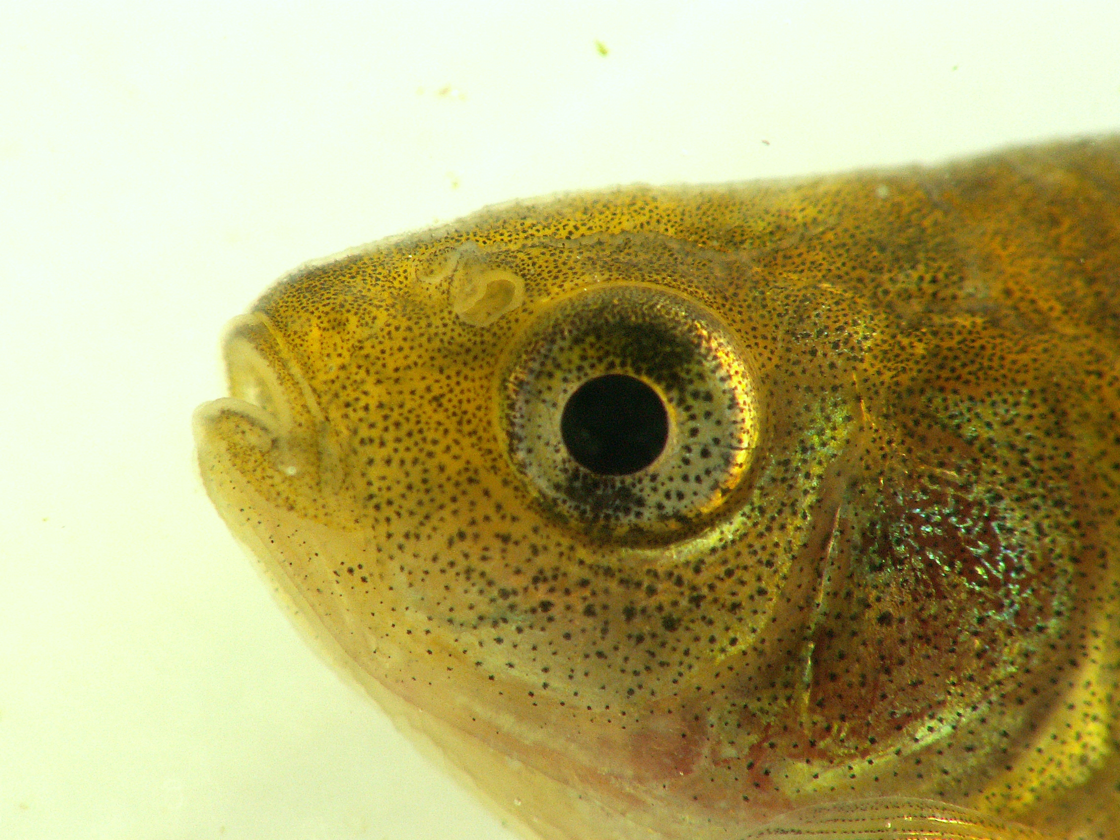 Head of juvenile Crucian carp (Carassius carassius). Notice the rounded shape of the head, compared to C. auratus.